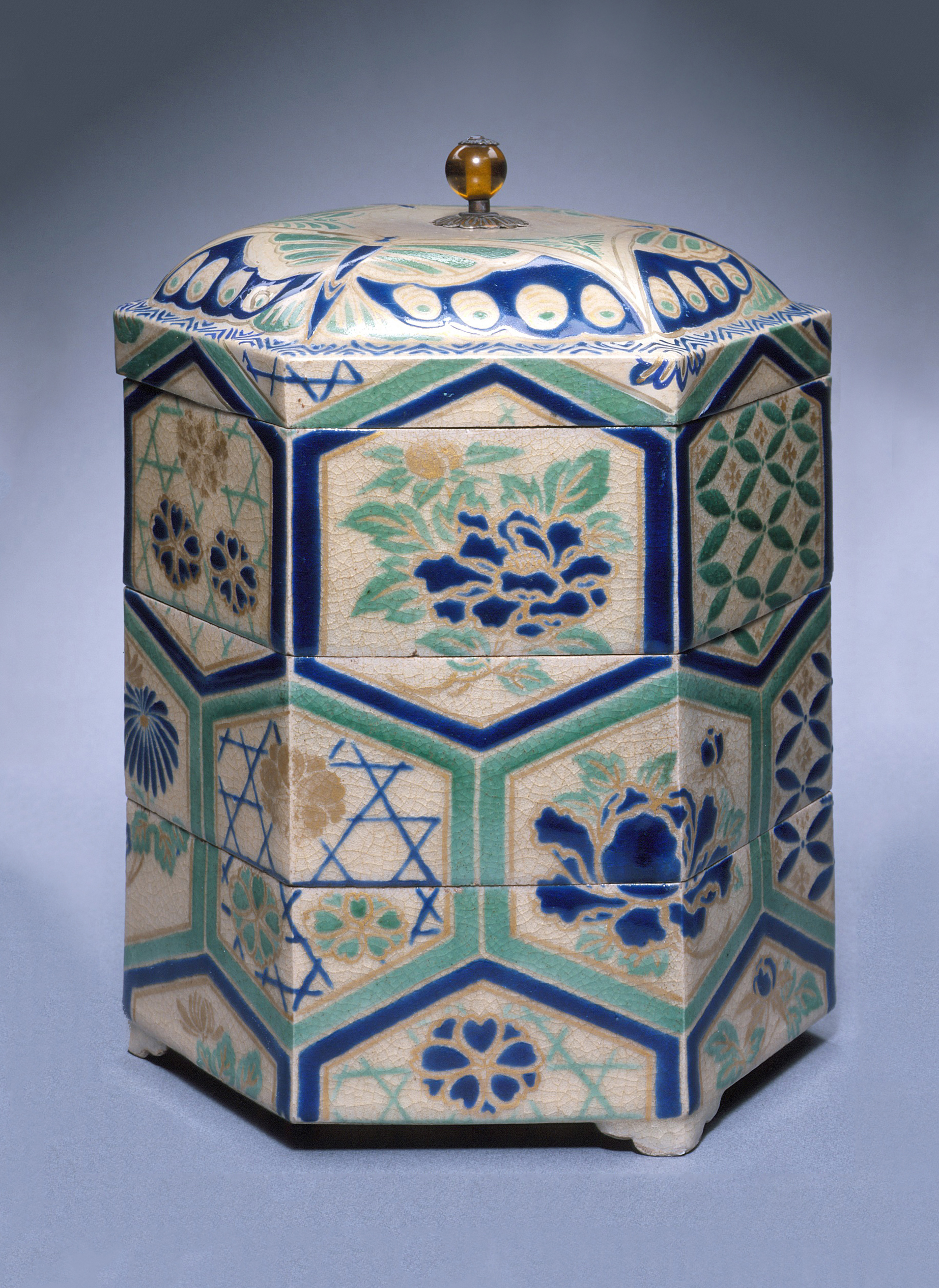 Japan, 18th century Furnishings; Accessories Kyoto ware (Kyōyaki); stoneware with overglaze enamels 7 1/2 x 6 x 5 in. (19.05 x 15.24 x 12.70 cm) Gift of Rosa Liebman (AC1992.158.1.1-.4) Japanese Art